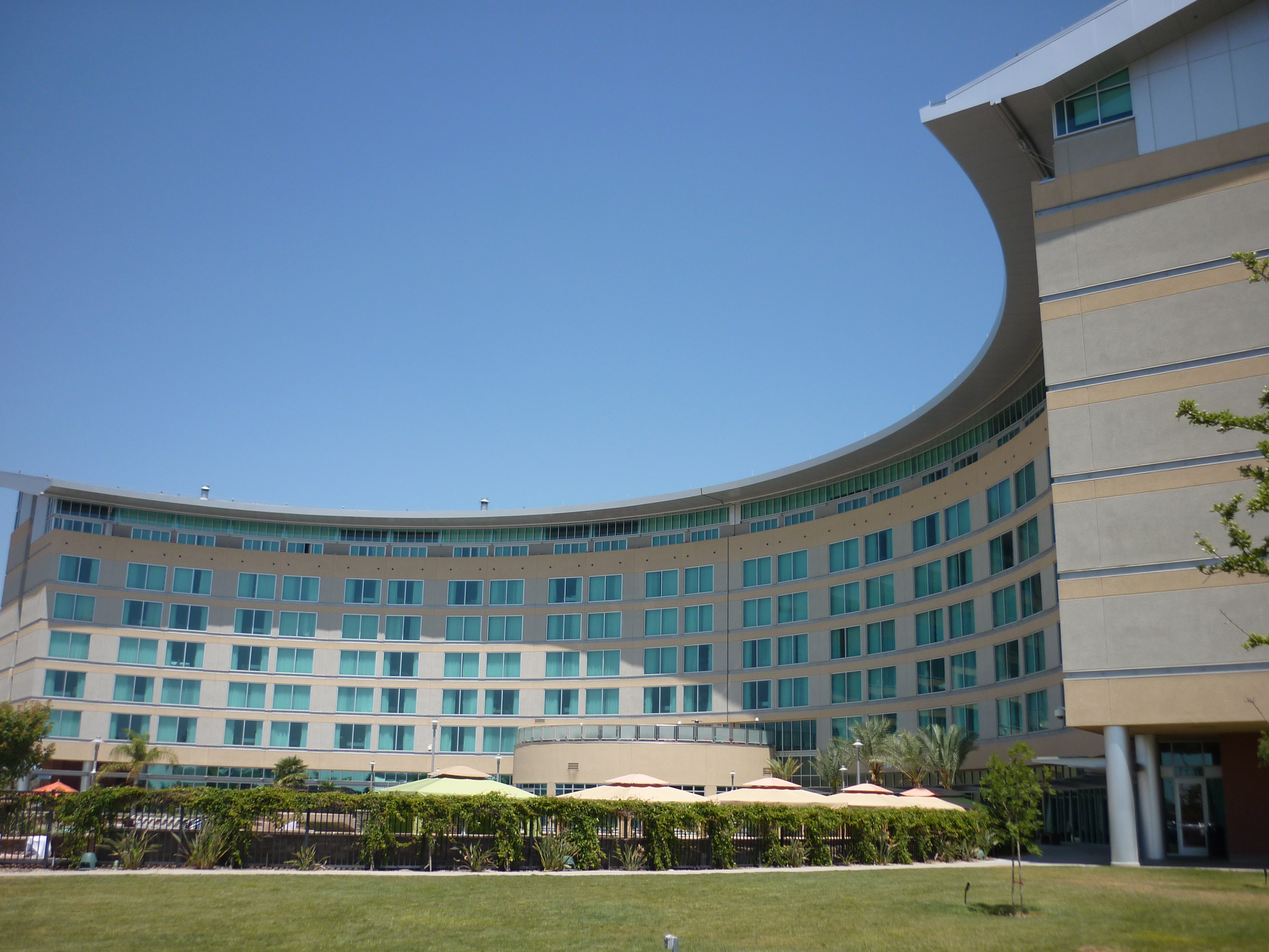 Hotel building of Tachi Palace